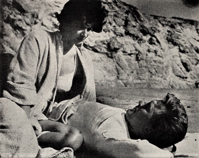 Ruth Roman e Kirk Douglas nel film Champion (1949)